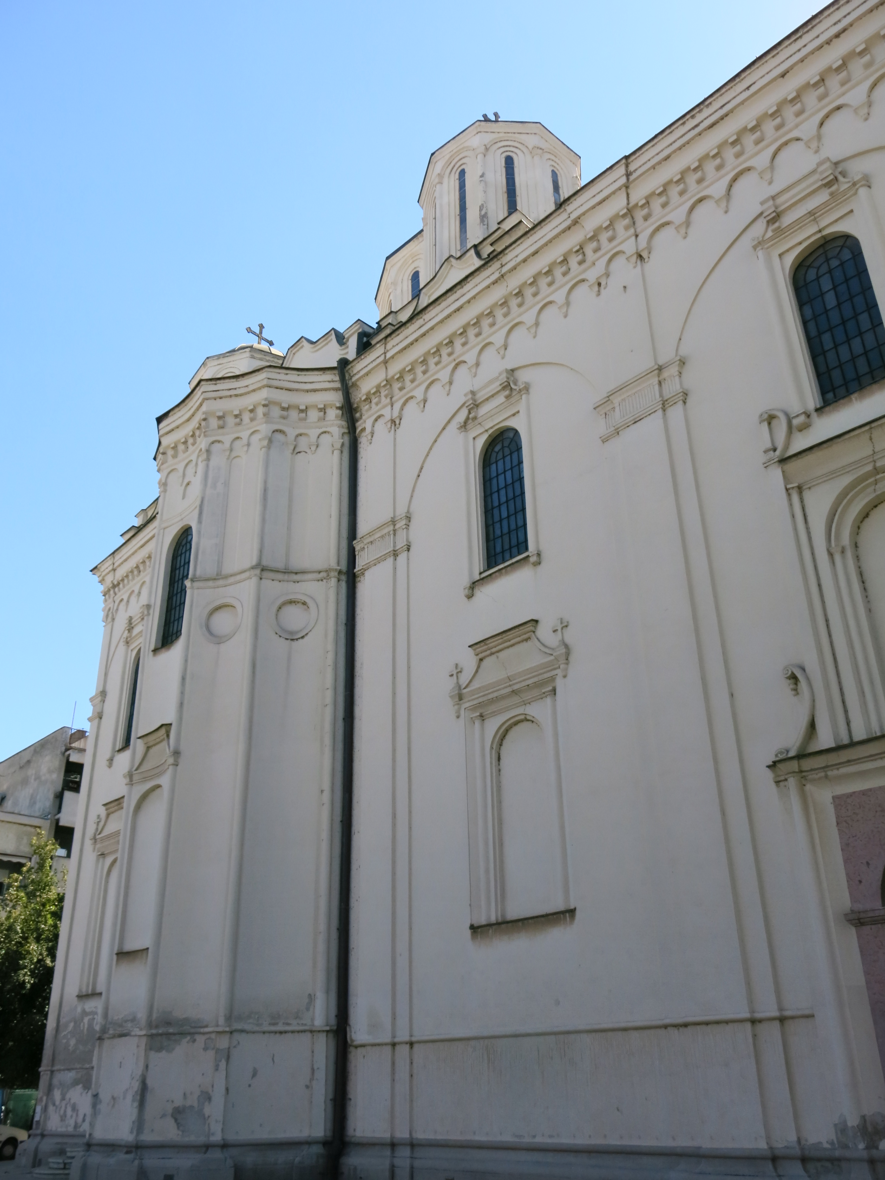 Smederevo, Church of Saint George